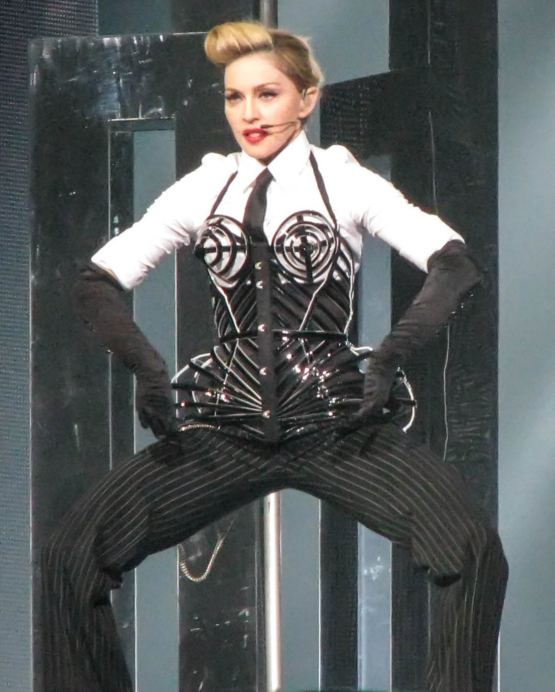 Madonna MDNA Tour 2012 at Key Arena in Seattle.